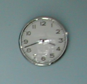 A picture of an IKEA "PUGG" clock.